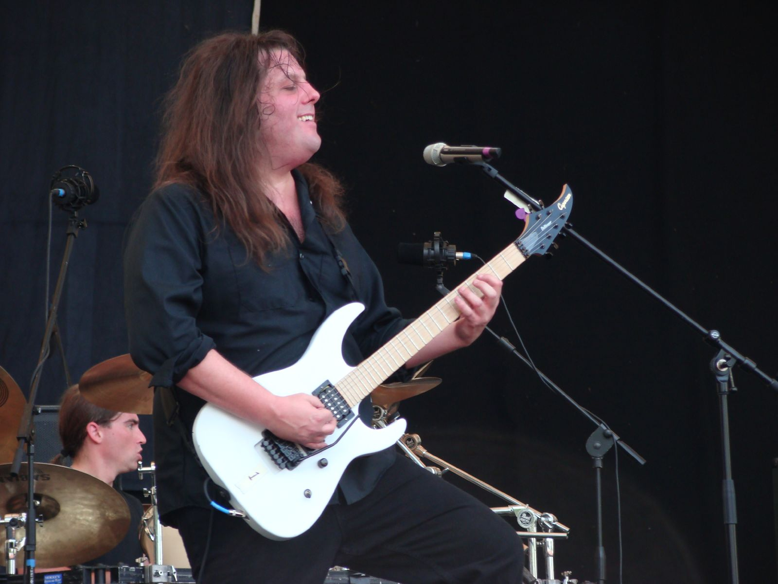 Michal Romeo live in Novara, Italy